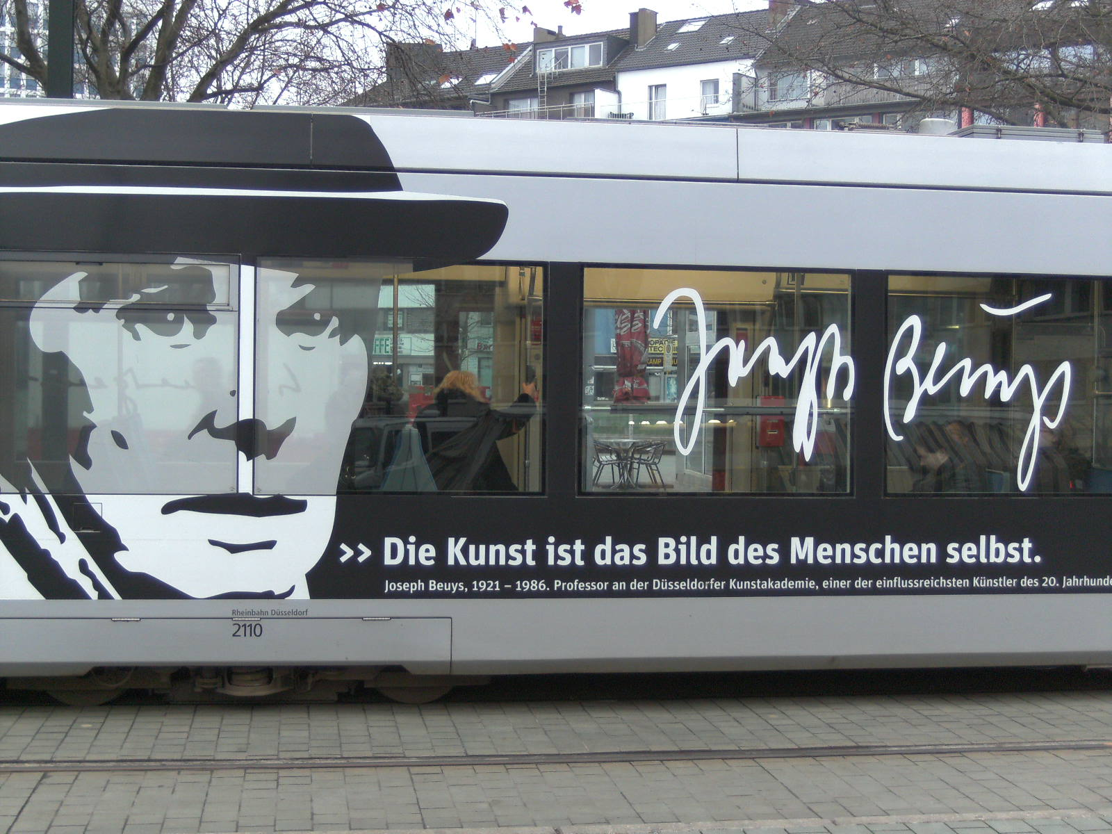 Joseph Beuys' face on a tram. "The art is the portrait of the human himself"